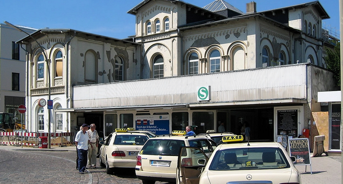 train station of Hamburg-Blankenese